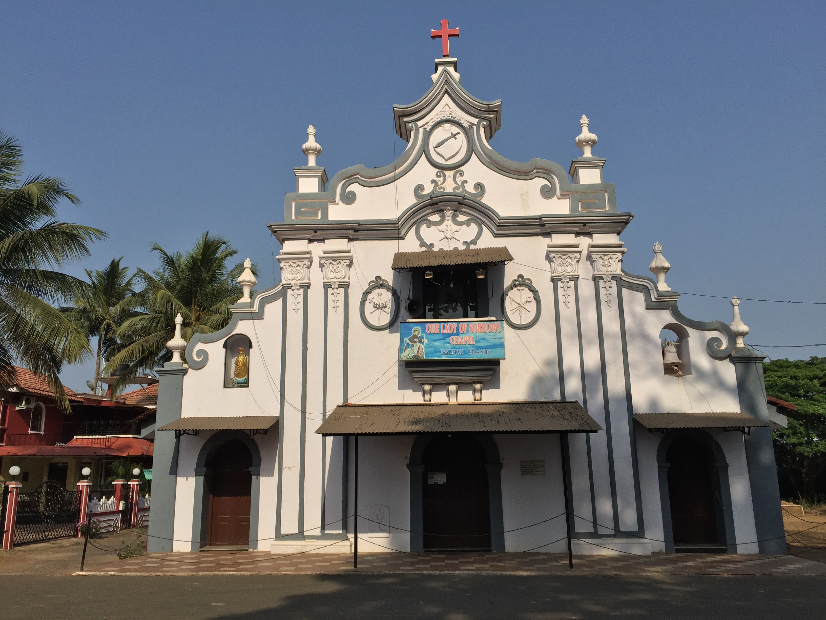 Chapel of Our Lady of Sorrows, Palmar Grande ward, Chinchinim village, Goa, India.